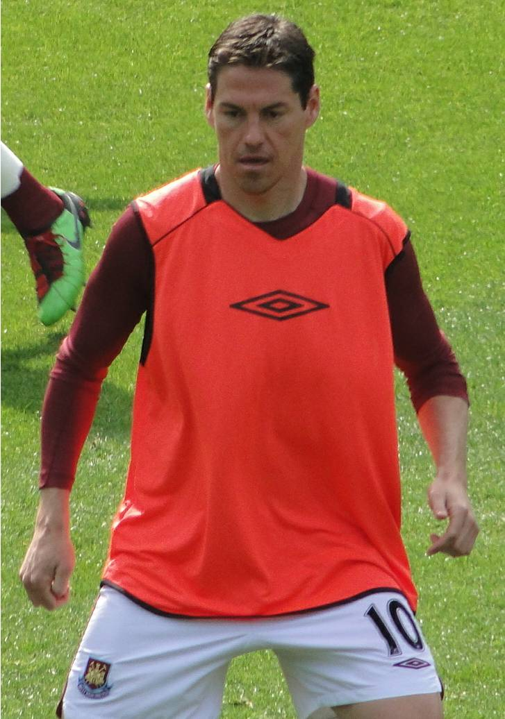 West Ham player Guillermo Franco warming-up before their 3-2 home win at Upton Park on 24 April 2010 against Wigan